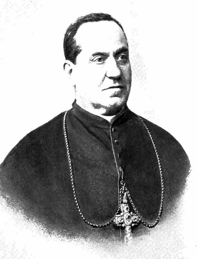 Guglielmo Pifferi (1819-1910) was Augustinian bishop on 1887, and comfessor of Pius X